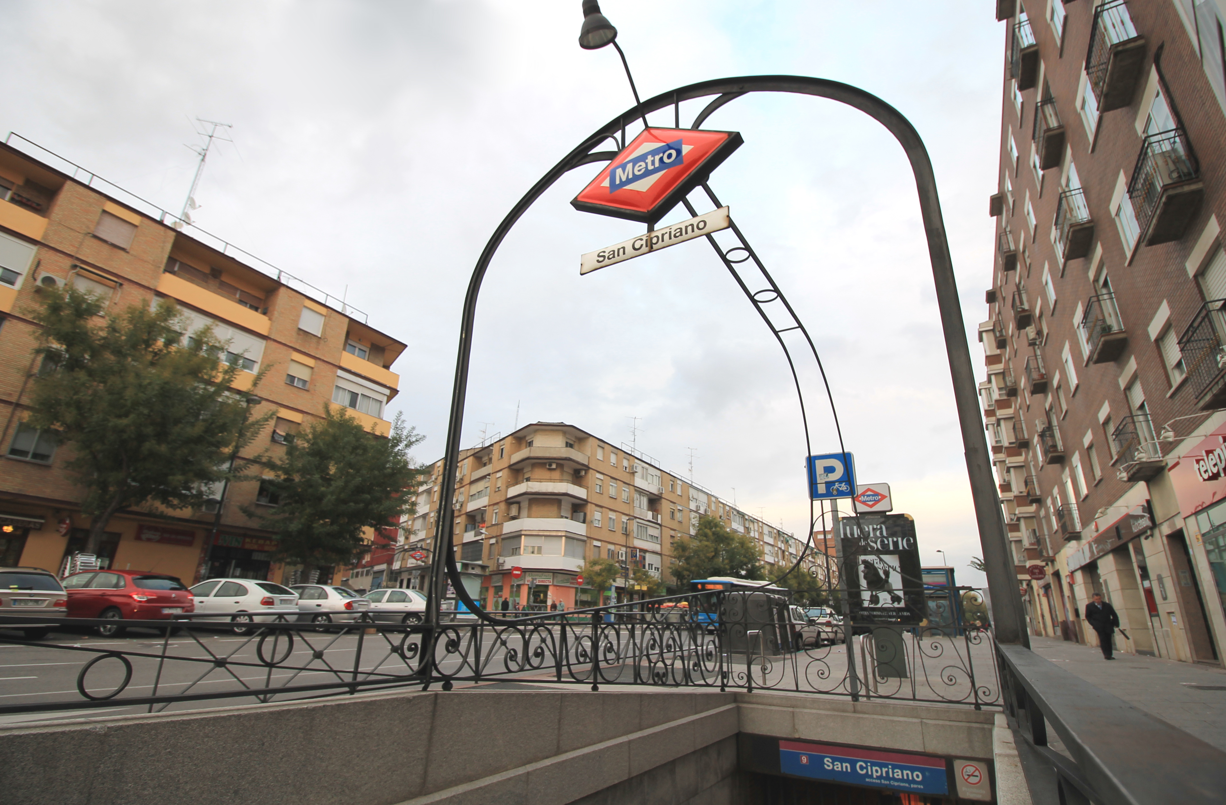 Entrance of San Cipriano metro station in Madrid (Spain).